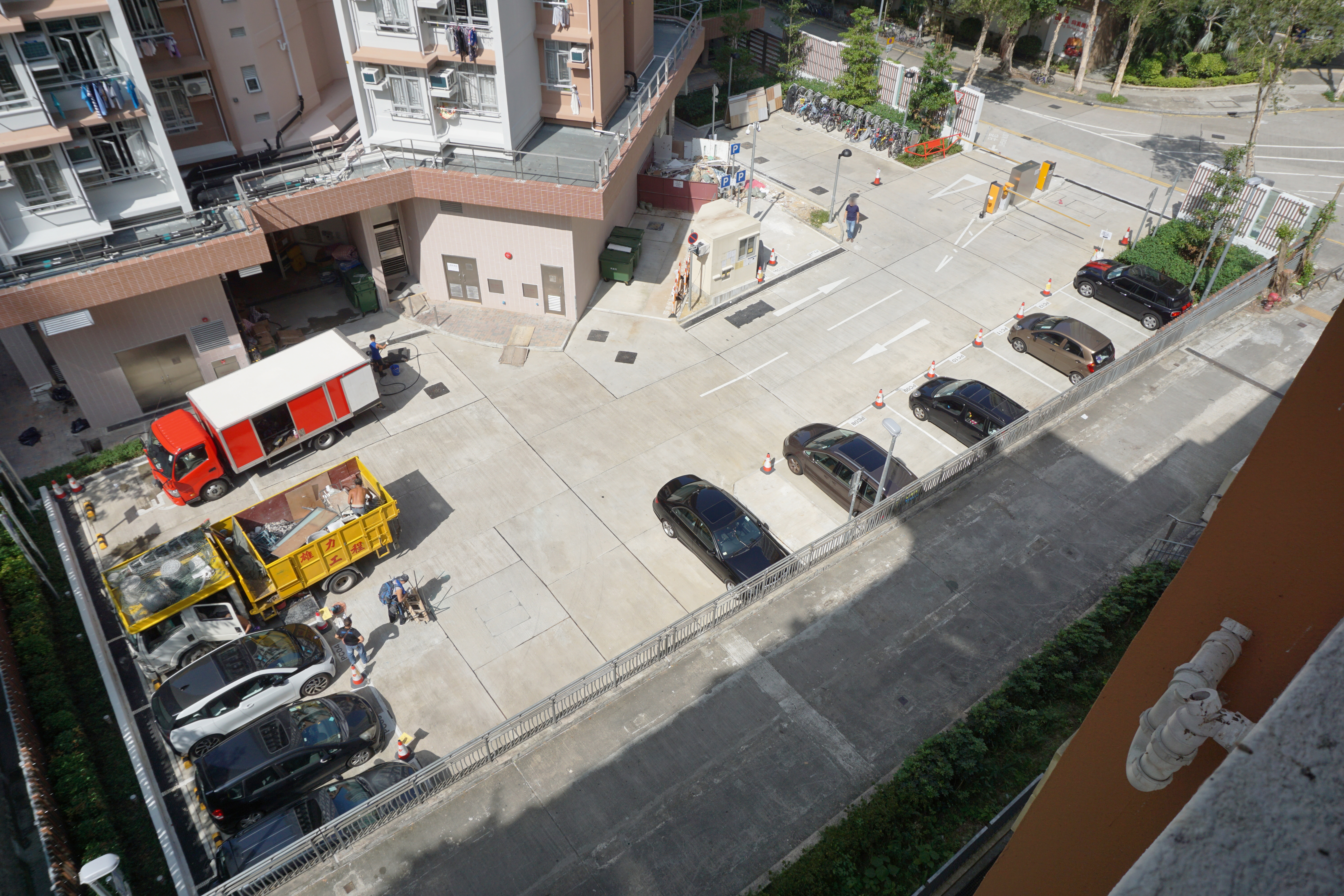 Mei Ying Court in Tai Wai, Hong Kong.